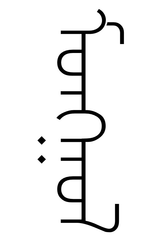 Monggol in Monggol bicig